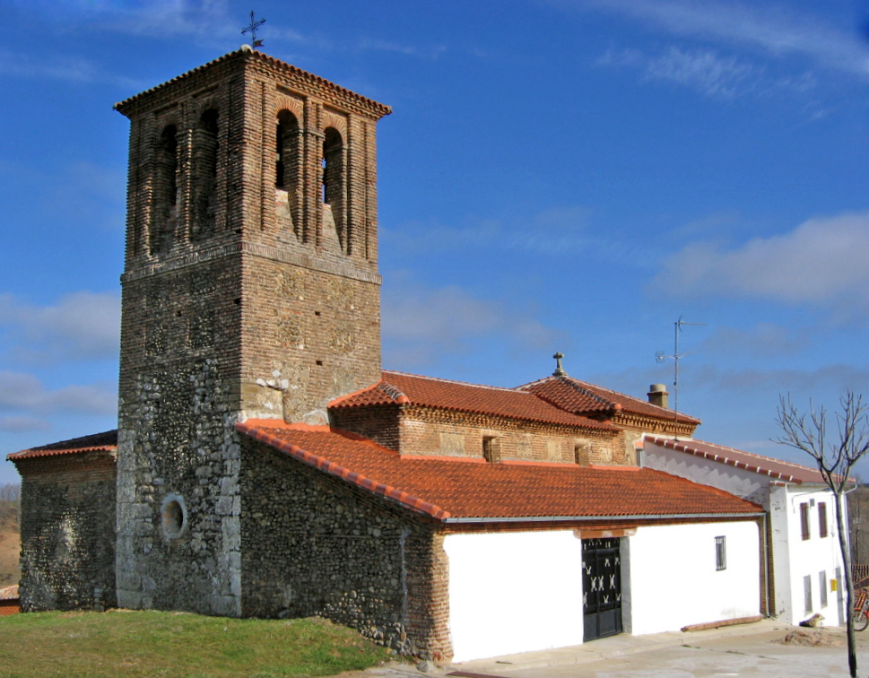 Church of La Asunción in Villasur (Palencia, Castile and León).